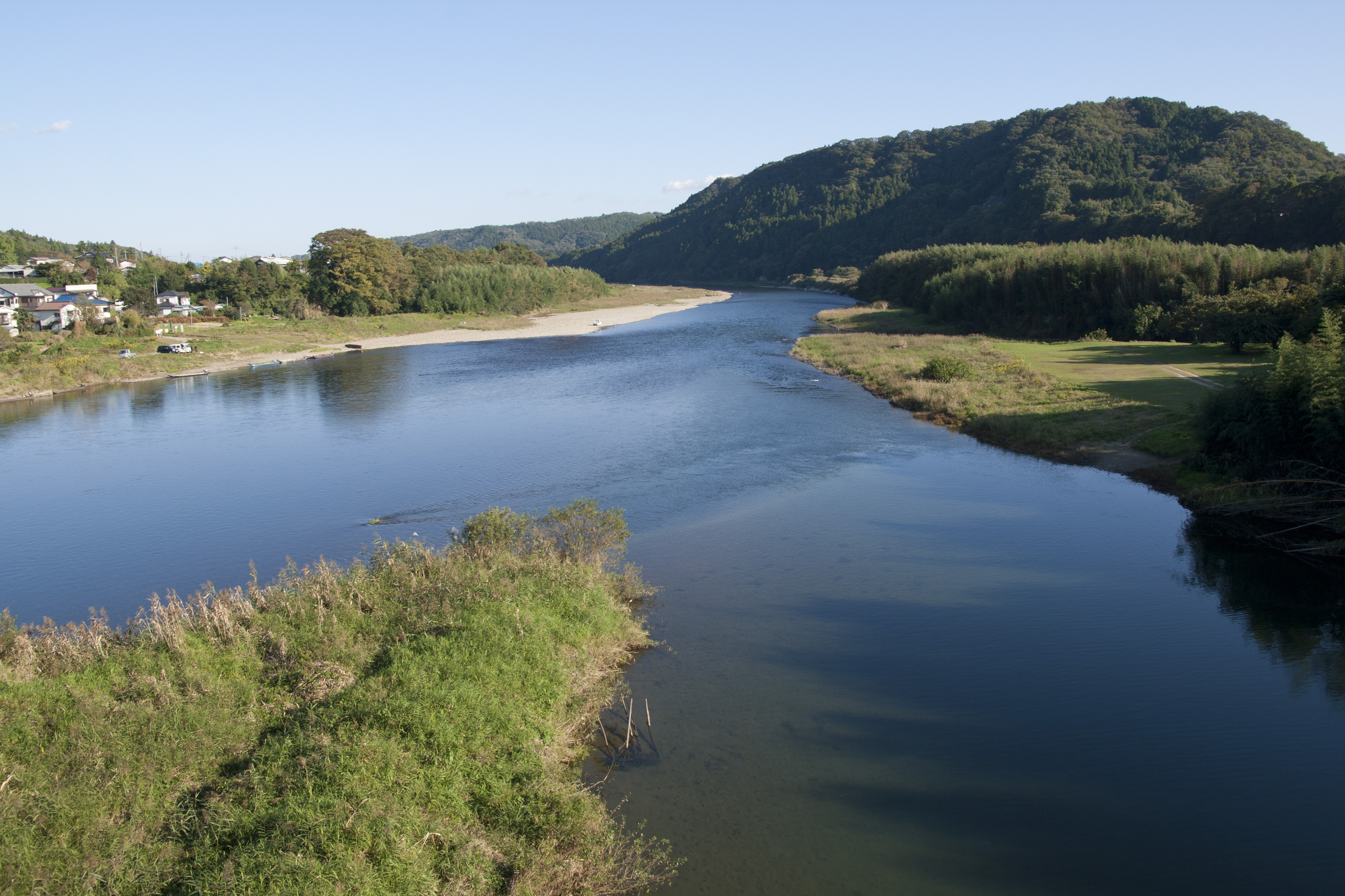 Naka river(Naka-gawa 那珂川), Motegi Town, Tochigi Prefecture, Japan.